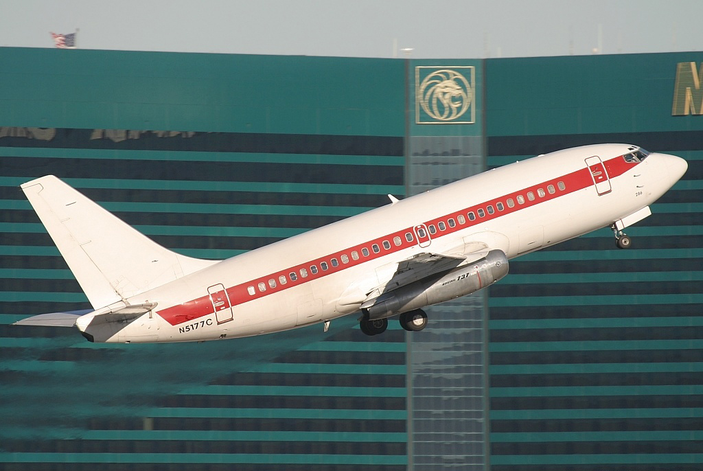 A Janet 737-200 with the MGM Grand Hotel in the backround at McCarran International Airport.